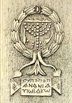 Jewish bas-relief at the Great Mosque of Gaza (now destroyed).